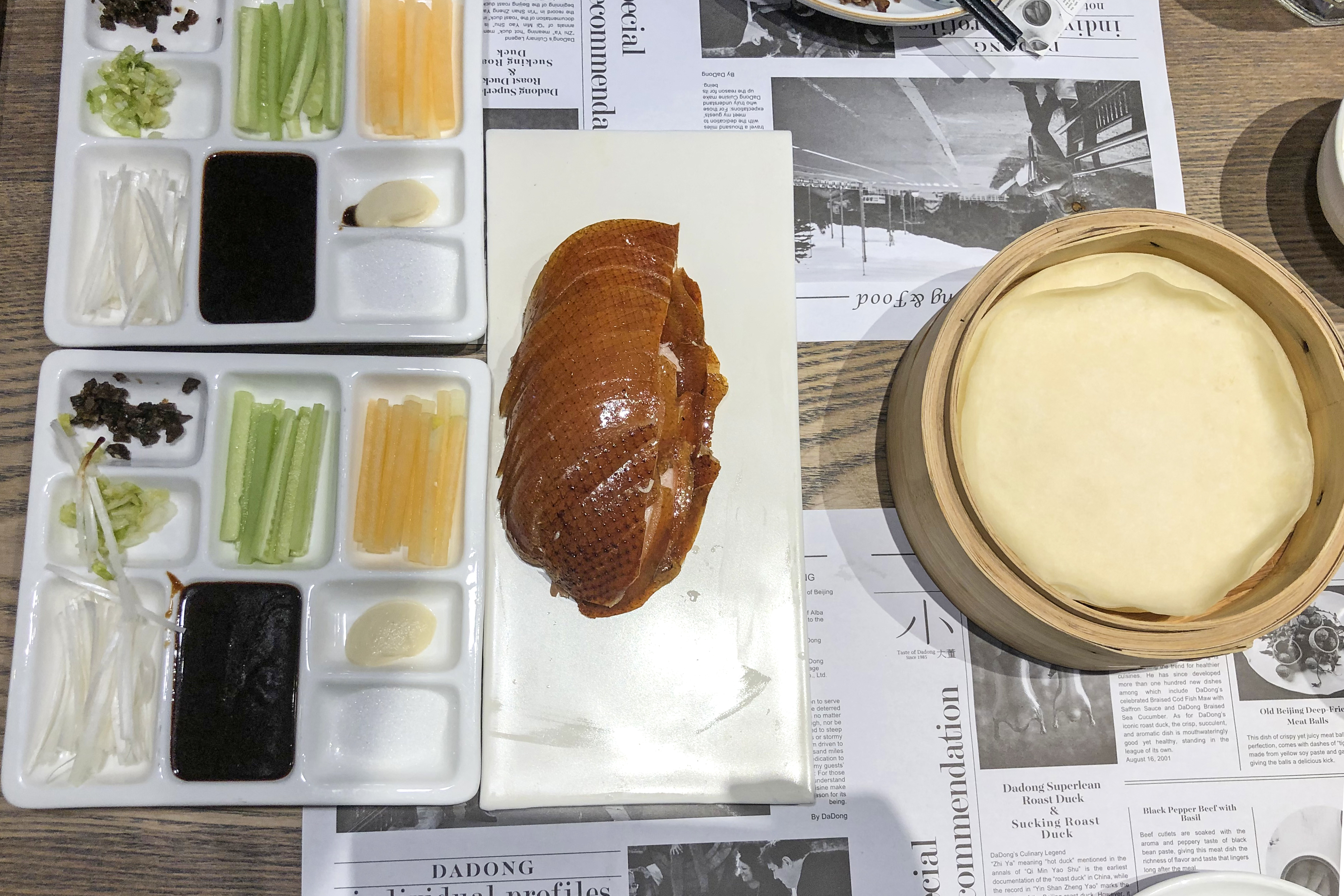 CNY199 for a whole duck, 109 for half, and 129 for a set meal combining a half duck, 4 appetizers, a set of sauce and duck soup.